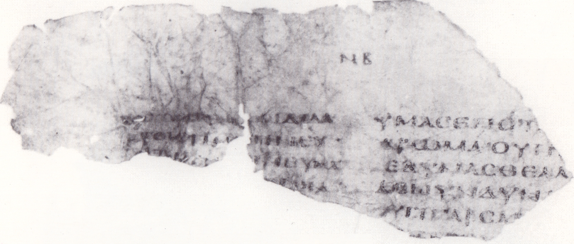 uncial 0185 (Gregory-Aland), G 39787, 1 Cor 2:13-16; 2:1-3